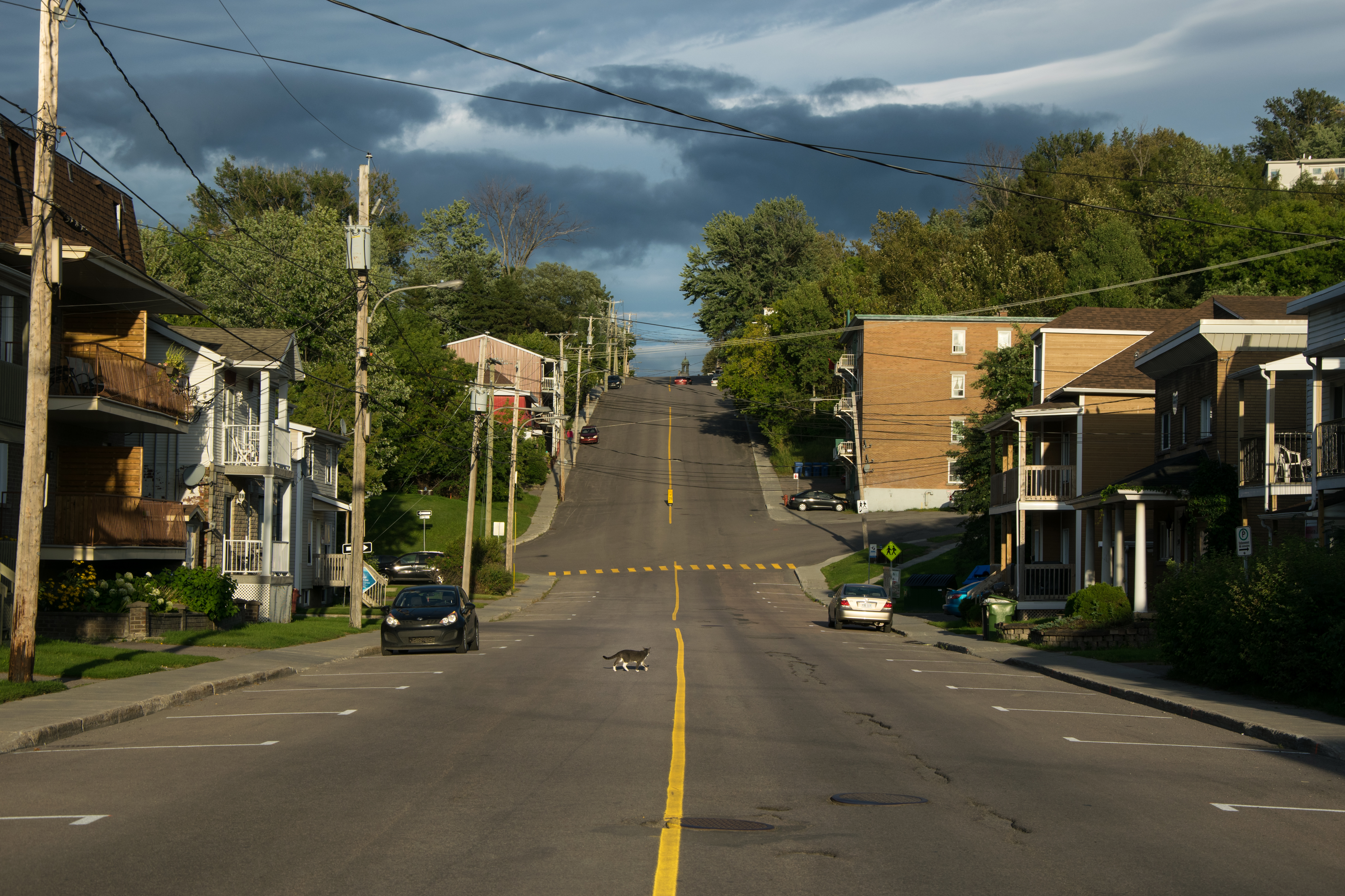 Price road in Chicoutimi, Quebec, Canada.